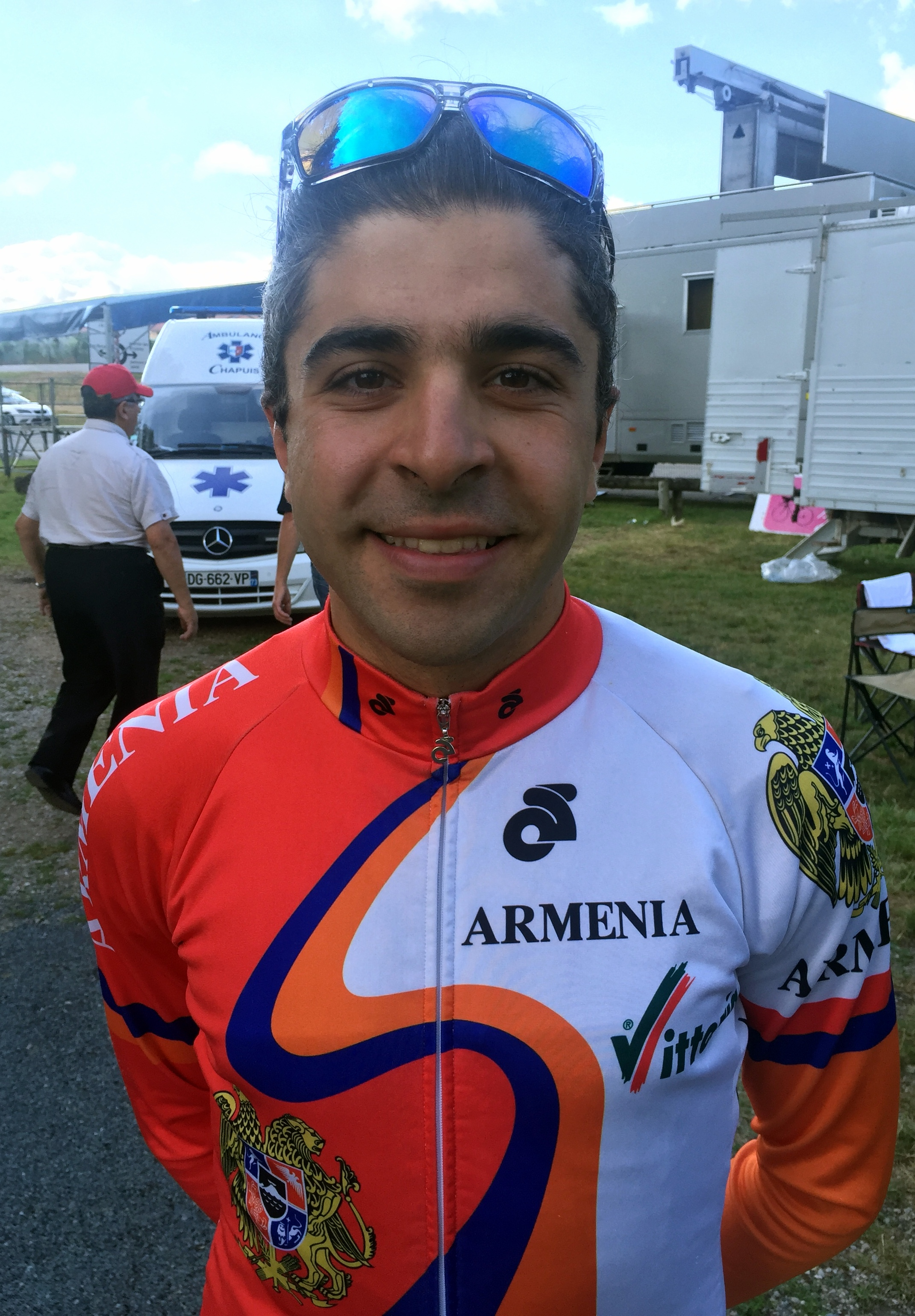 Mher Mkrtchyan (Մհեր Մկրտչյան), armenian track cyclist.